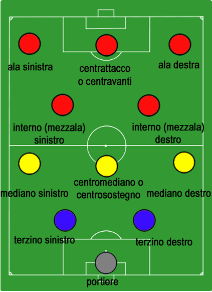 Own work, based upon the file Soccer.Field_Transparant.png. All rights released into the PD.